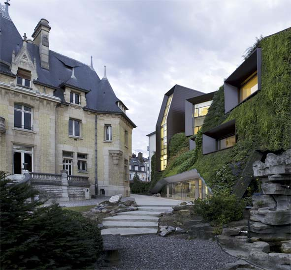 Chambre Régionale de Commerce et d'Industrie de Picardie, Chartier-Corbasson architectes, Amiens, 2012